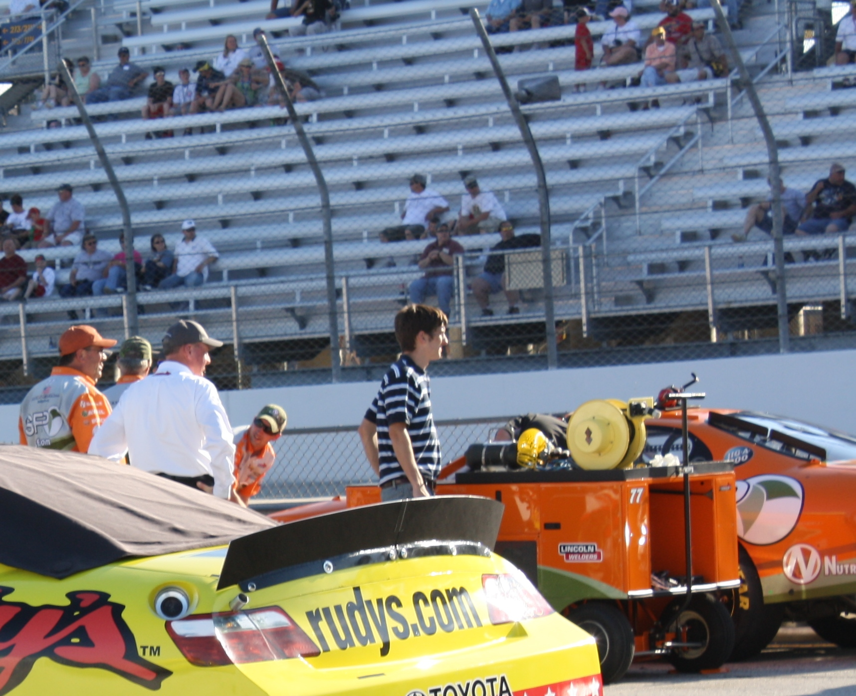 NASCAR driver Peyton Sellers Chevrolet at the 2009 Northern 250 Nationwide Series race at the Milwaukee Mile.